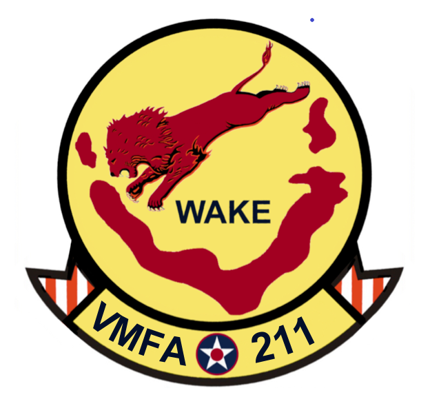 VMFA-211 Official chest patch